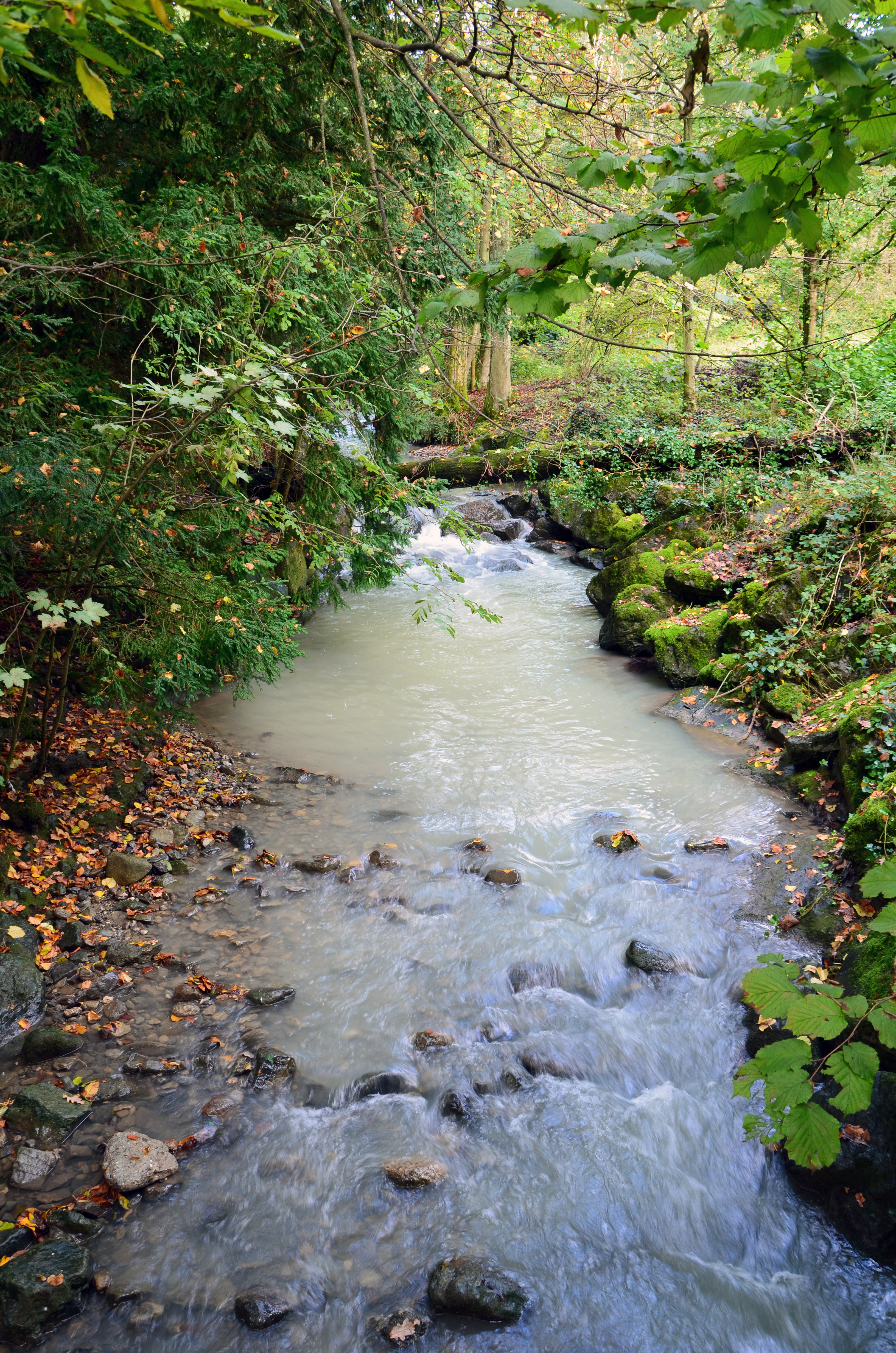 The Vuachère river between Pully and Lausanne, a few meter before it gets into the Leman lake